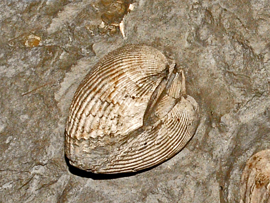 Fossil of Anadara diluvii, on display at the Museo Paleontologico Giulio Maini, Ovada